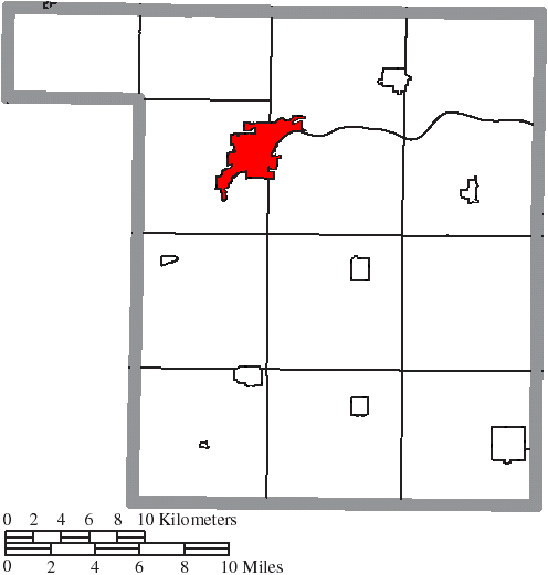 Map of the municipal and township boundaries of Henry County, Ohio, United States, as of the 2000 census, with the location of the city of Napoleon highlighted. Township borders are shown only in unincorporated areas in order to differentiate incorporated and unincorporated areas more clearly.